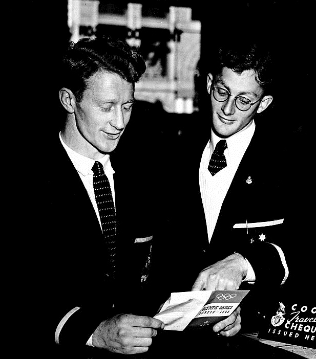 Australian Olympic Games squad members Bruce Arthur (Wrestling) and Russell Mockridge (Cycling) prior to boarding their flight to London for the 1948 Olympic Games on 26 June 1948. SMH SPORT Picture by STAFF